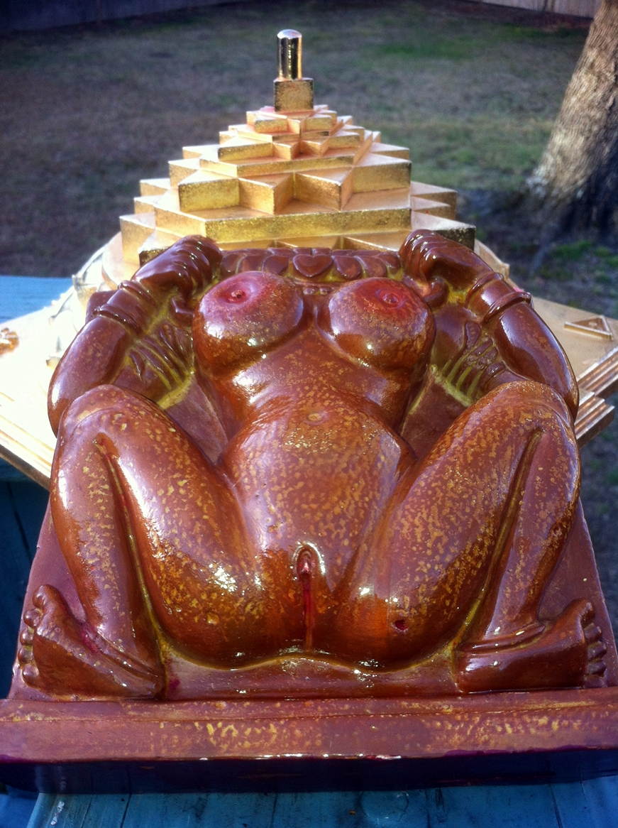 Two important icons in Shakta worship, Srividya School